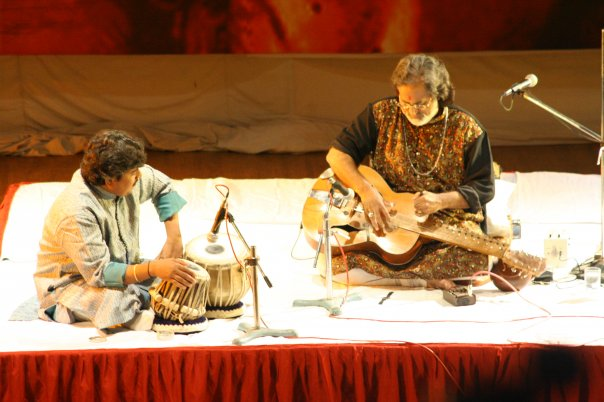 grammy winner